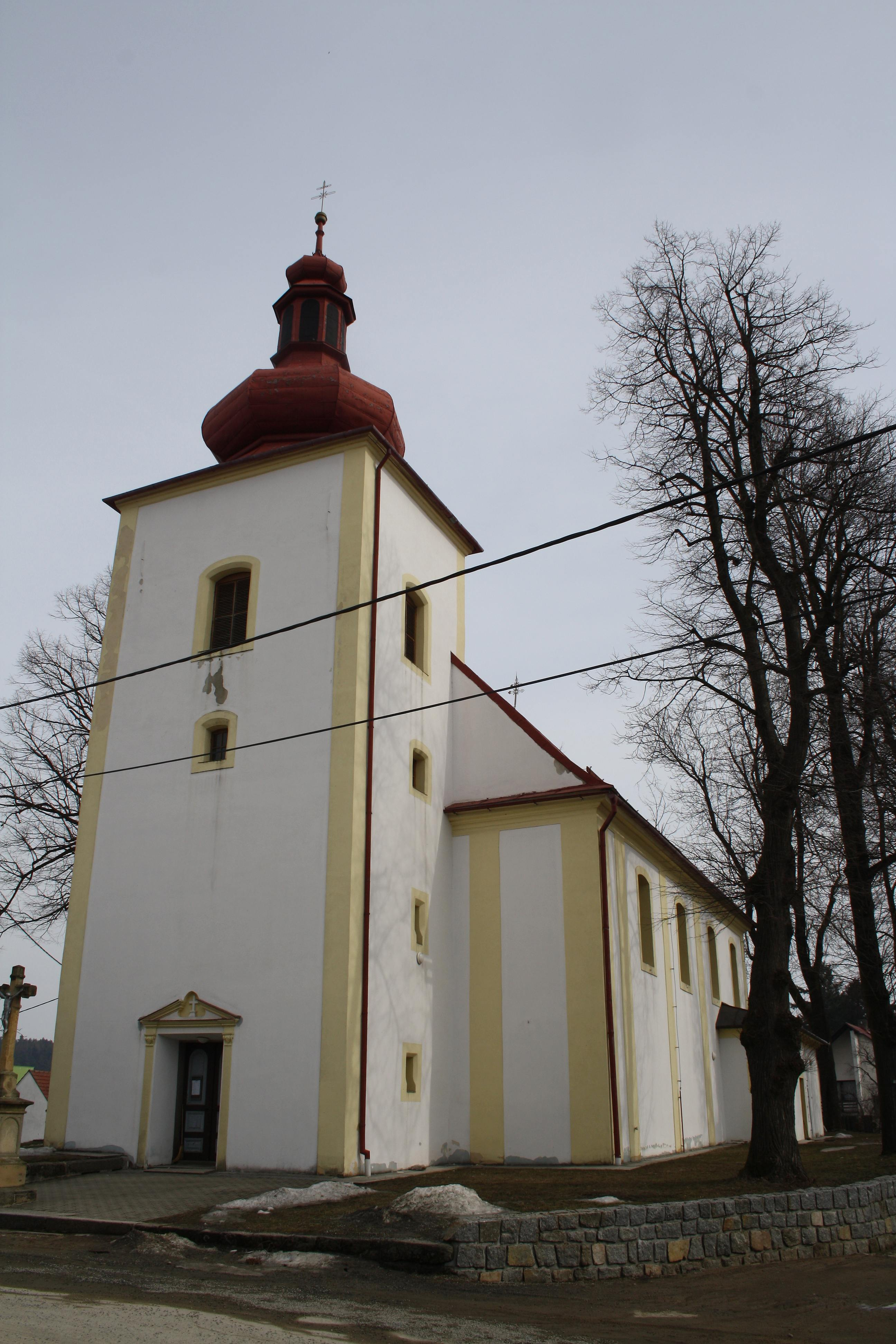 Saints Peter and Paul church in Rudíkov overview